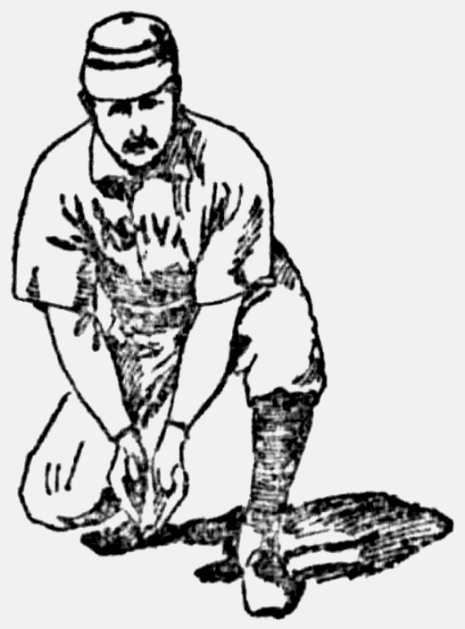 An illustration of baseball player Sam LaRocque from the May 24, 1893, edition of The Nashville American